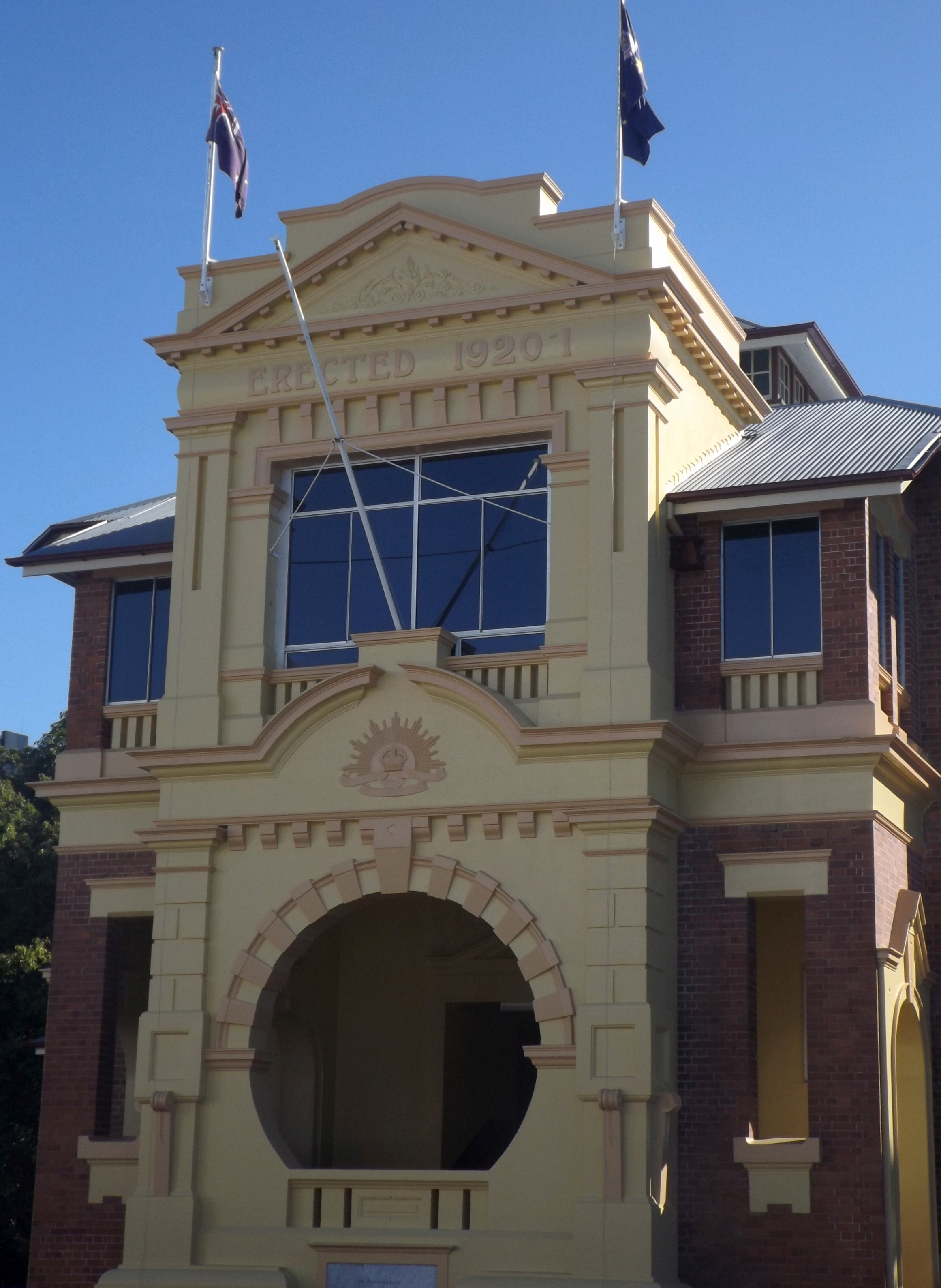 Photo of the front of the Soldiers' Memorial Hall at Ipswich, Queensland, Australia.